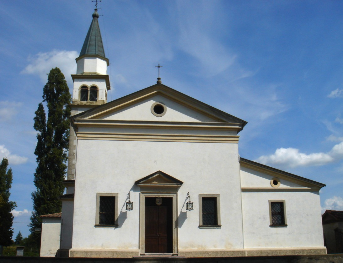 Santa Maria di Feletto: chiesa